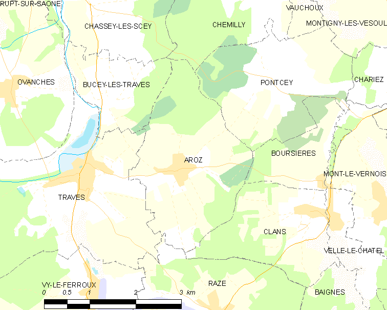 Map of French municipality